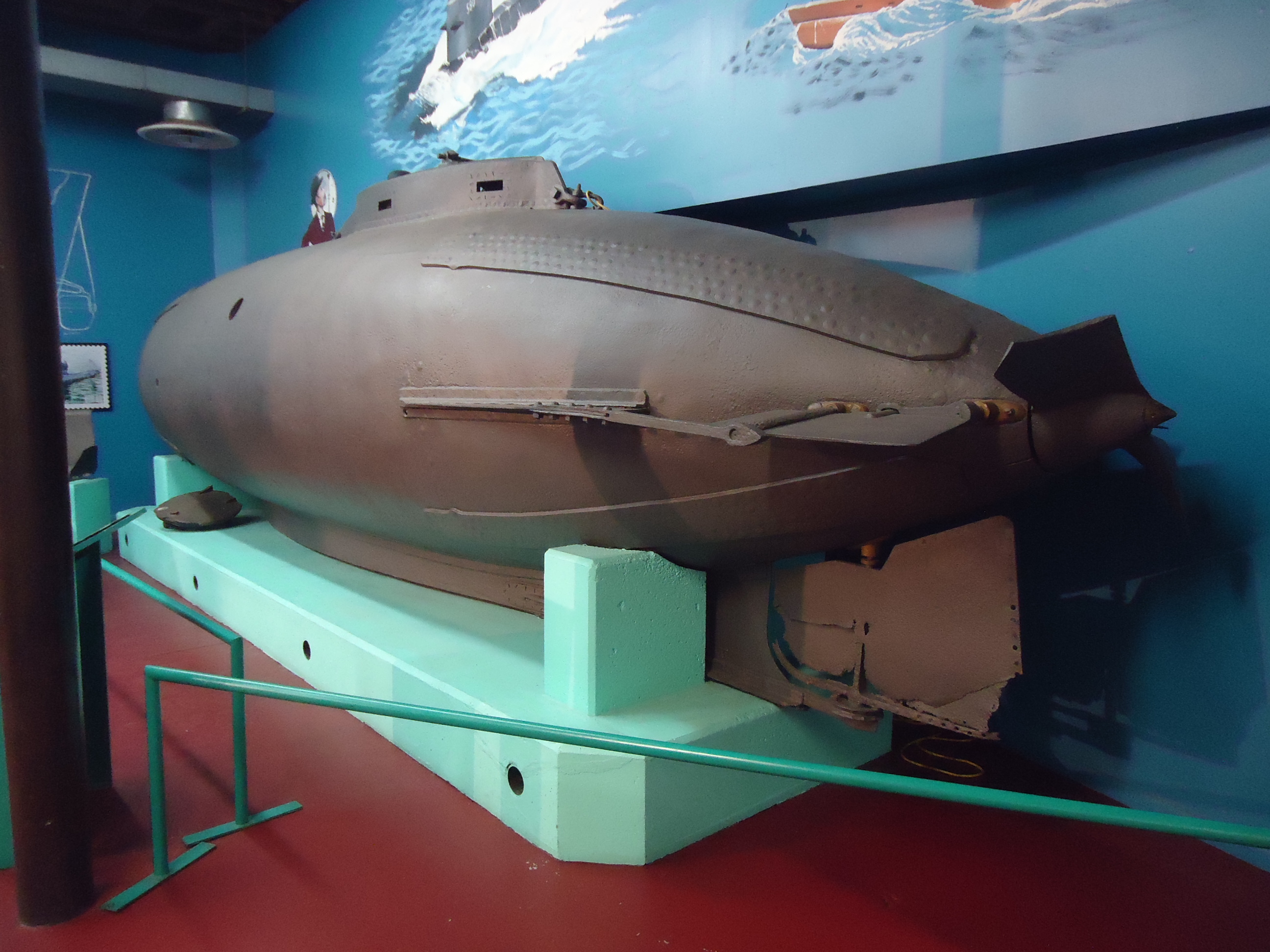 Images from the Paterson Museum in Paterson, New Jersey. Paterson was the location of early manufacturing, much of it powered by the Great Falls nearby in which the Passaic River drops 77 feet. Early manufacturing included clothing, guns, railroad locomotives, submarines and aircraft engines. In this image: early submarine about 10 feet long and a few feet high.